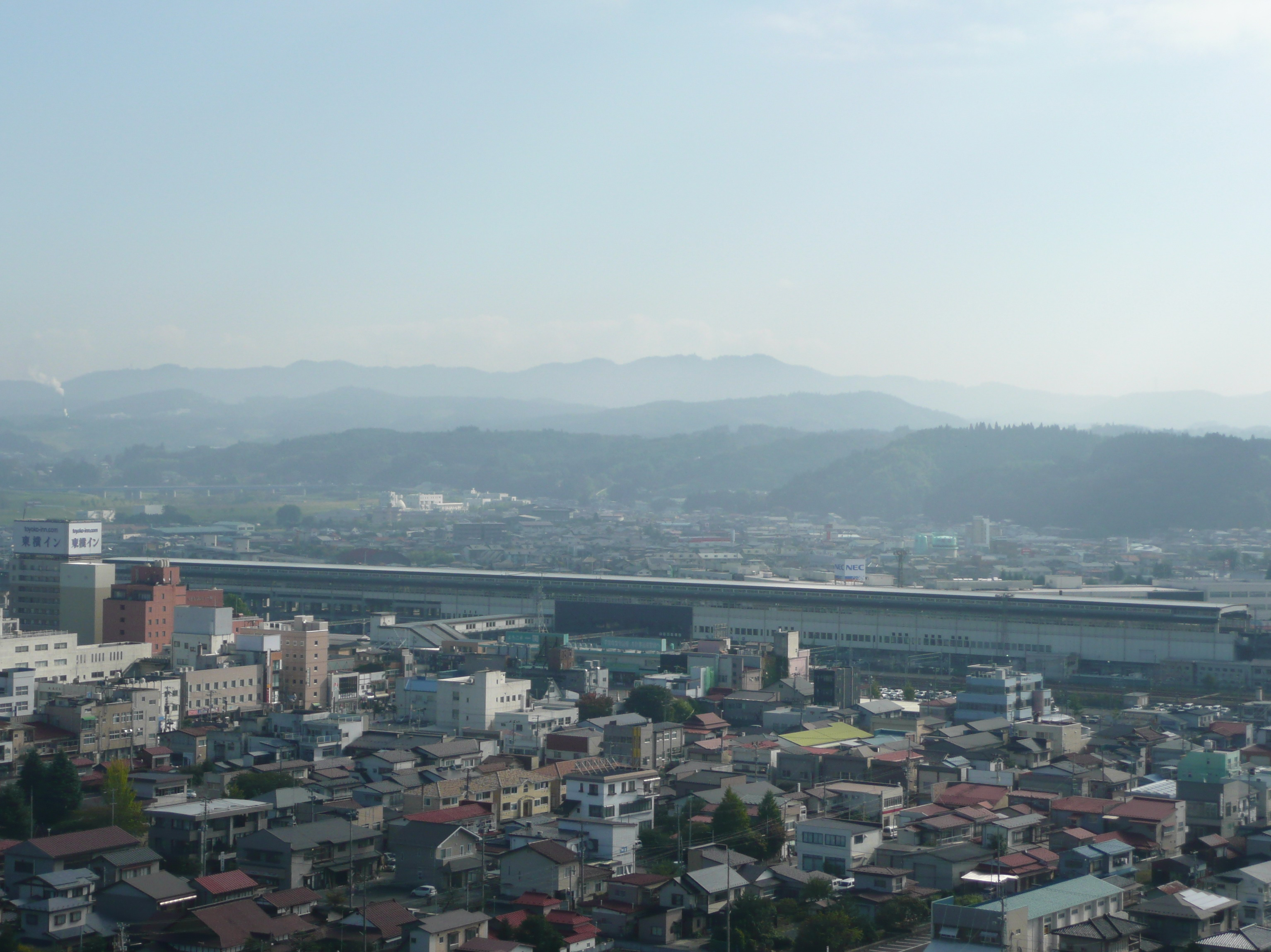 Ichinoseki Station viewed from Tsuriyama Park